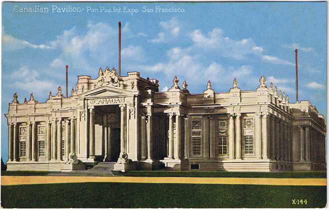 Published by Pacific Novelty Co., San Francisco. Back reads "Canadian Building, Panama-Pacific International Exposition, San Francisco, February 20 to December 4,1915. It is the largest as well as one of the most beautiful of the foreign buildings, and established another record of being first erected and every exhibit completely installed. In area it is 450 by 225 feet and was built at a cost of $400,000. The building and contents are of government origin and maintenance." The inscription reads, "The most beautiful exhibit at the Fair is this building - don't know how mortal mind could think it out been collecting it almost twenty years."